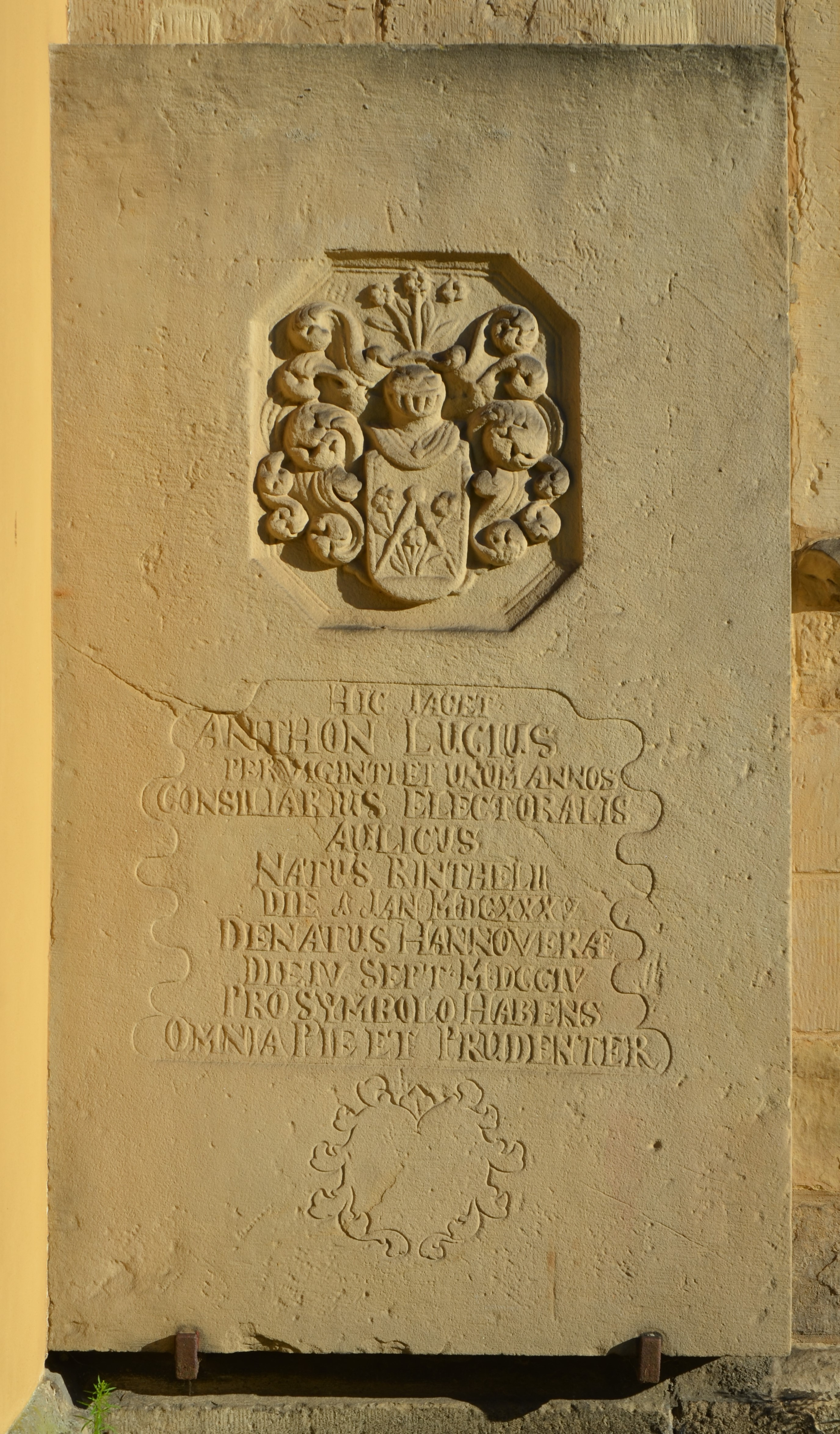 Gravestone